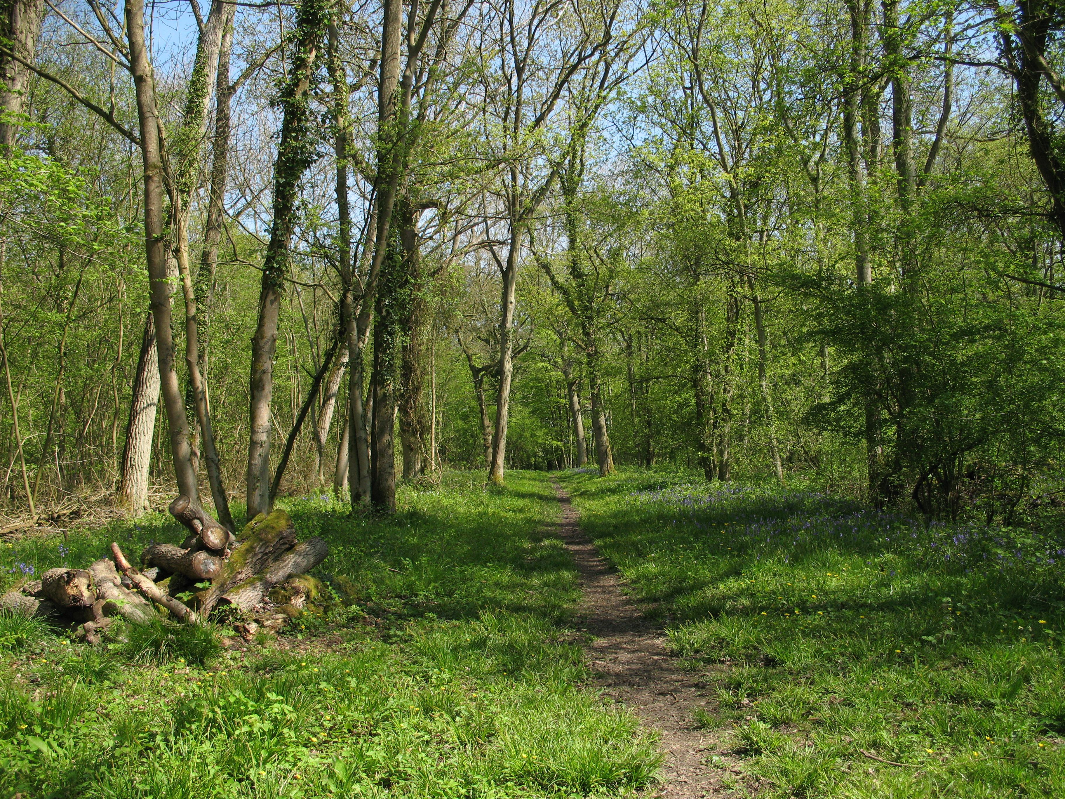 Buff Wood, a Site of Special Scientific Interest near East Hatley, Cambridgeshire